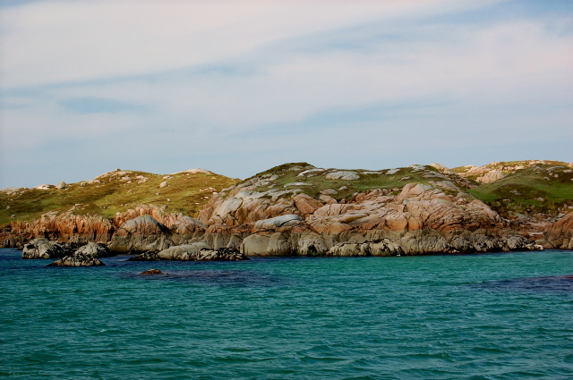 Eighter Island coastal scenery This view is at the NW end of Eighter Island.